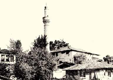 Mahmud Celebi cami (Bojiali)